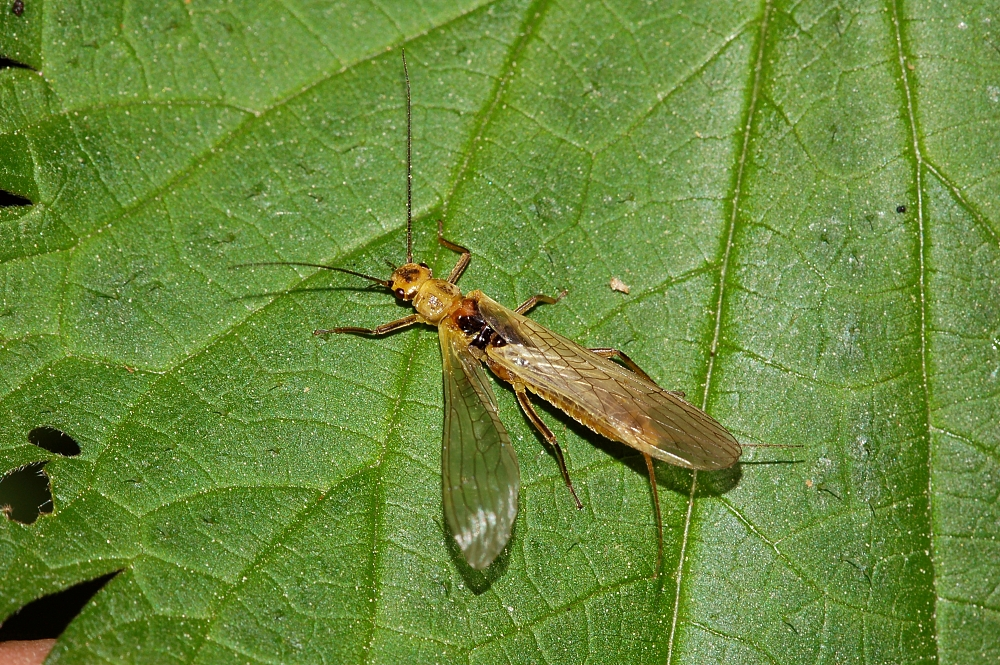 Plecoptera species, Mörfelden, Hesse, Germany